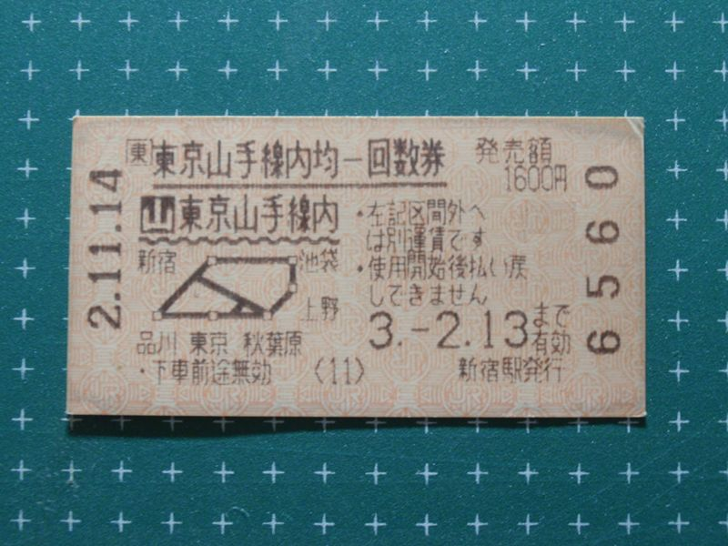 Repeat ticket in Tokyo Yamanote line